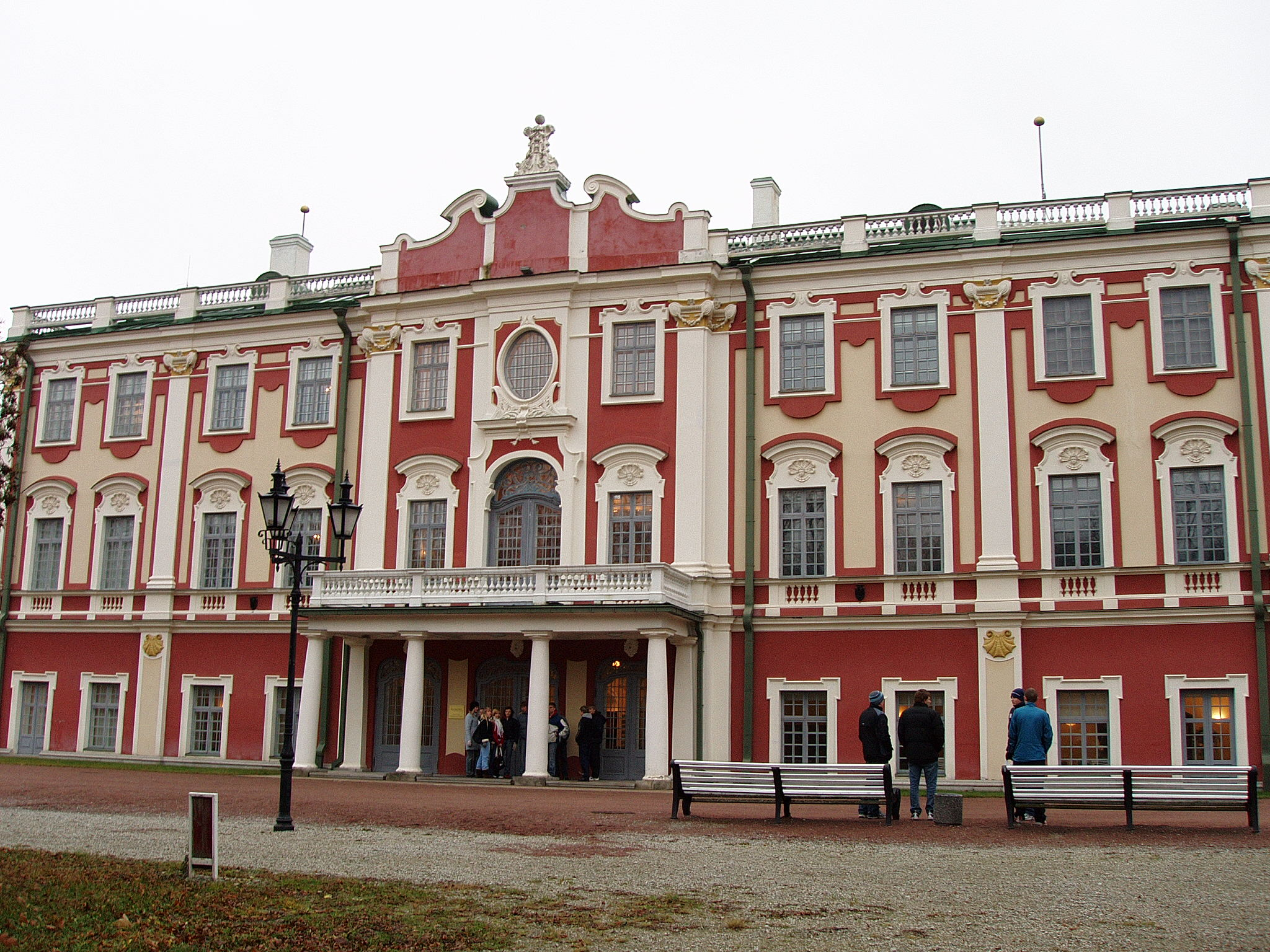 Kadriorg Palace